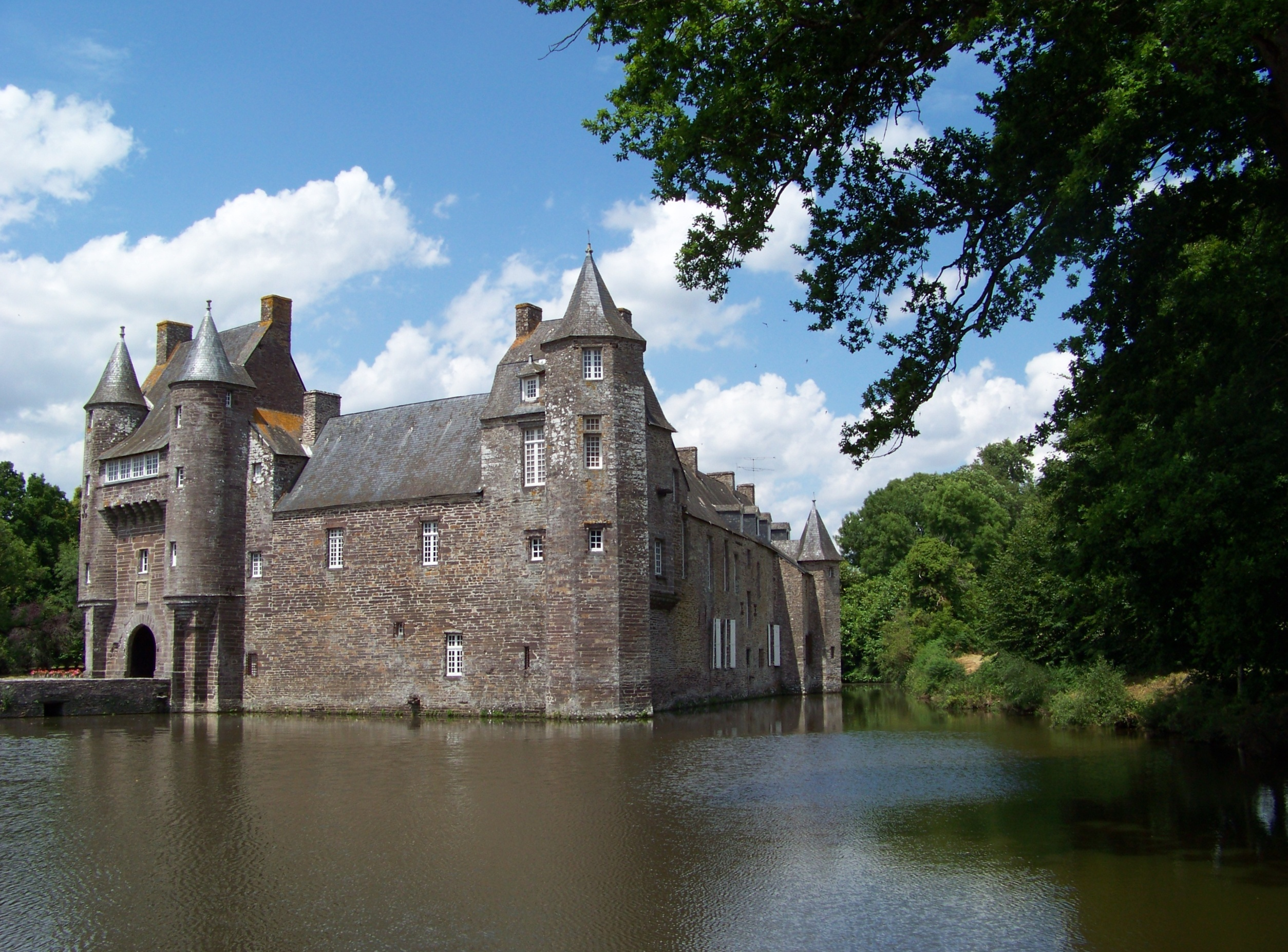 Trécesson Castle, Kempenieg, Morbihan, Brittany .